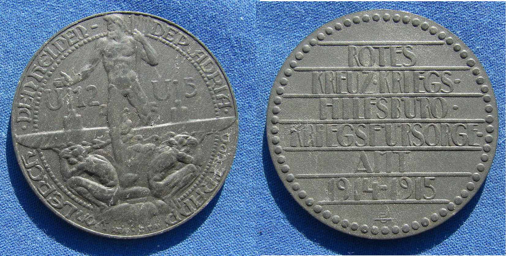 Rare WWI Patriotic Zinc Medallion. D = 45 mm. Trapp, Georg Johannes Ludwig, Ritter von, Korvettenkapitän, 1880 Zadar, Croatia - 1947 Stowe, Vermont, USA and Lerch, Egon, Alfred Rudolf von, Austrian Linienschiff Leutnant, 1886 Triest, Austria - 1915 Venice, Italy Neptune walking between 2 U-boat submarines "U 12" (commanded by von Lerch) , and "U 5" (commanded by von Trapp) , that are carried by 2 naked men. Around : "DEN HELDEN- DER ADRIA von TRAPP von LERCH" (To the heros of the Adriatic Sea von Trapp von Lerch) / In 6 lines : "ROTES KREUZ KRIEGS- HILFSBURO KRIEGSFURSORGE- AMT 1914 - 1915" (= Red Cross War Office War Aid Office 1914 - 1915). Wurzbach 5140. Medallists: (Wilhelm) Hejda, Sculptor, 1869 Vienna - 1942 Vienna, Austria and (Heinrich) Zita, Sculptor,1882 Znojmo, Czech Republic - 1951 Wien. The Austrian naval submarine officers von Trapp, and von Lerch conducted combat patrols very successfully in WWI in the Adriatic Sea. Condition: VERY FINE+